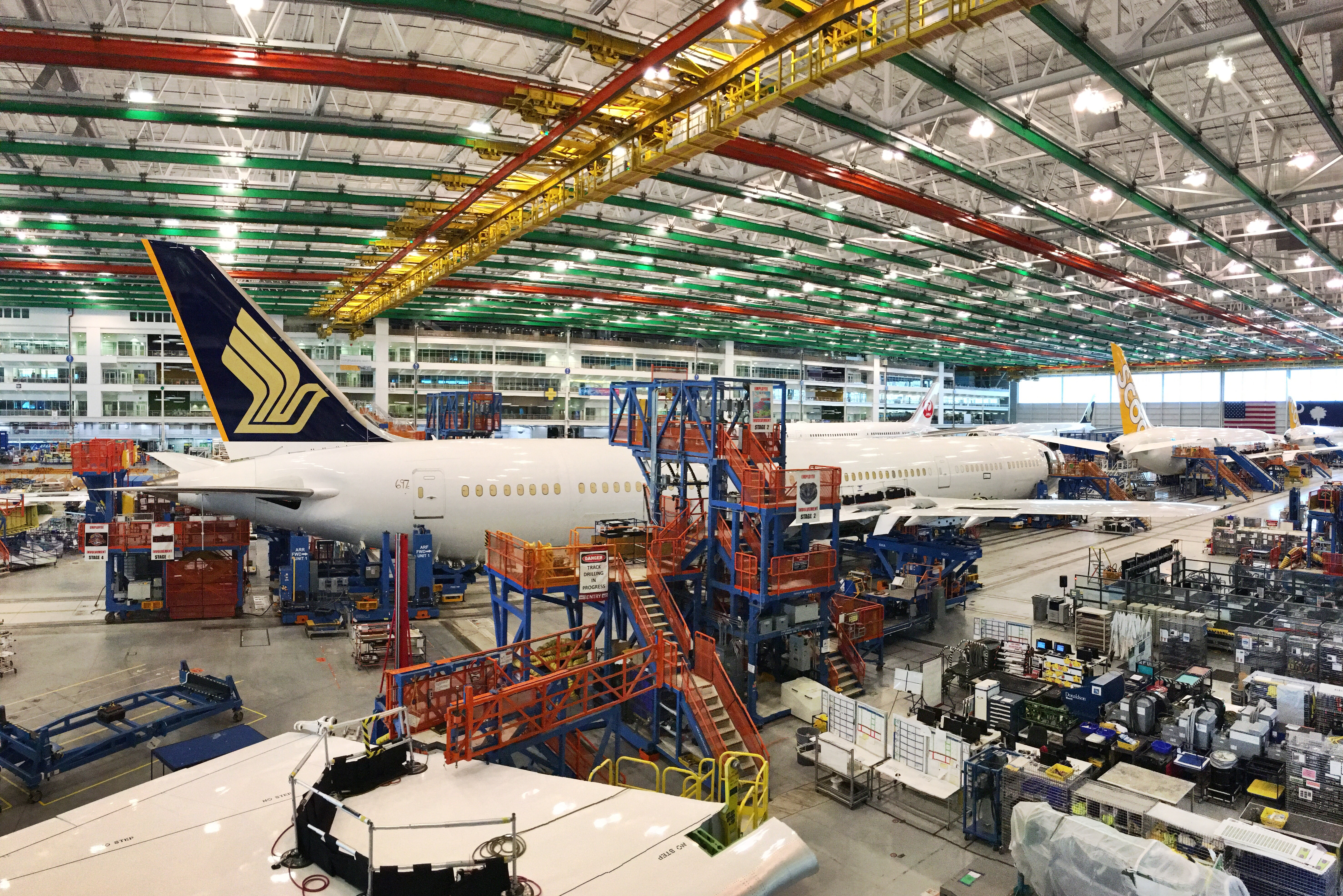 Singapore Airlines 787-10 final assembly